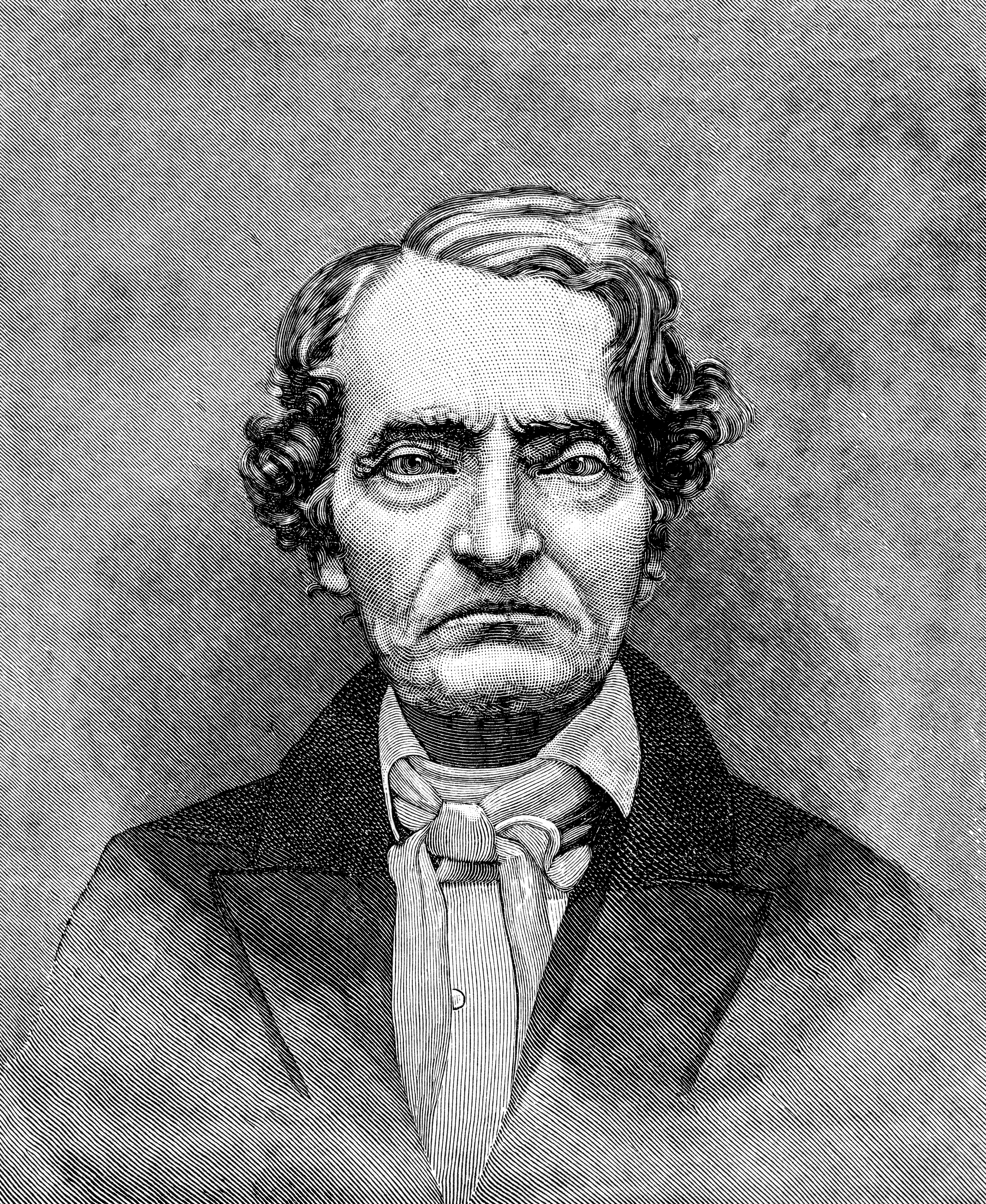 Providence mayor Walter R. Danforth engraving. Source: The Providence Plantations for 250 Years, 1886, page 104.